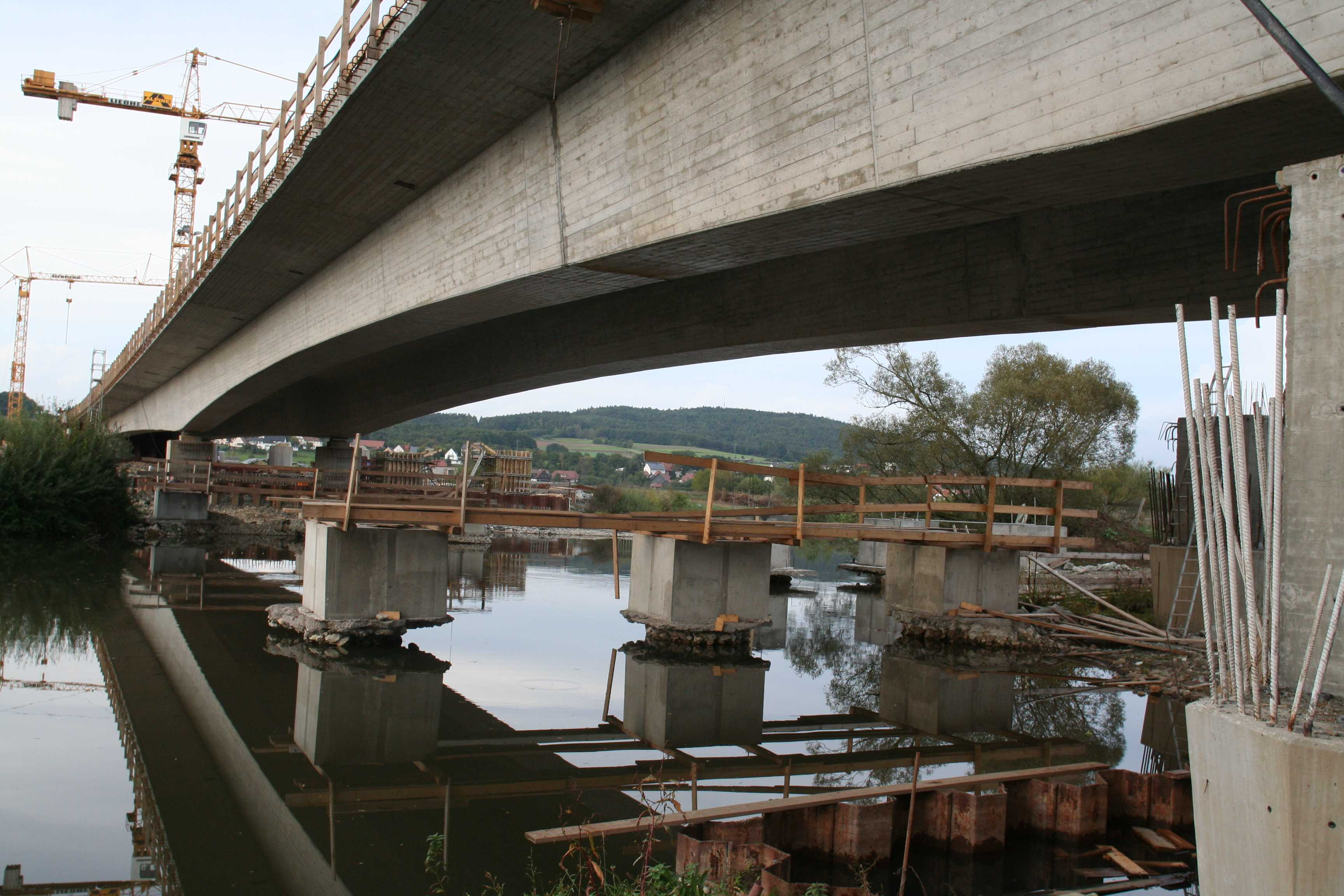 Mainbridge